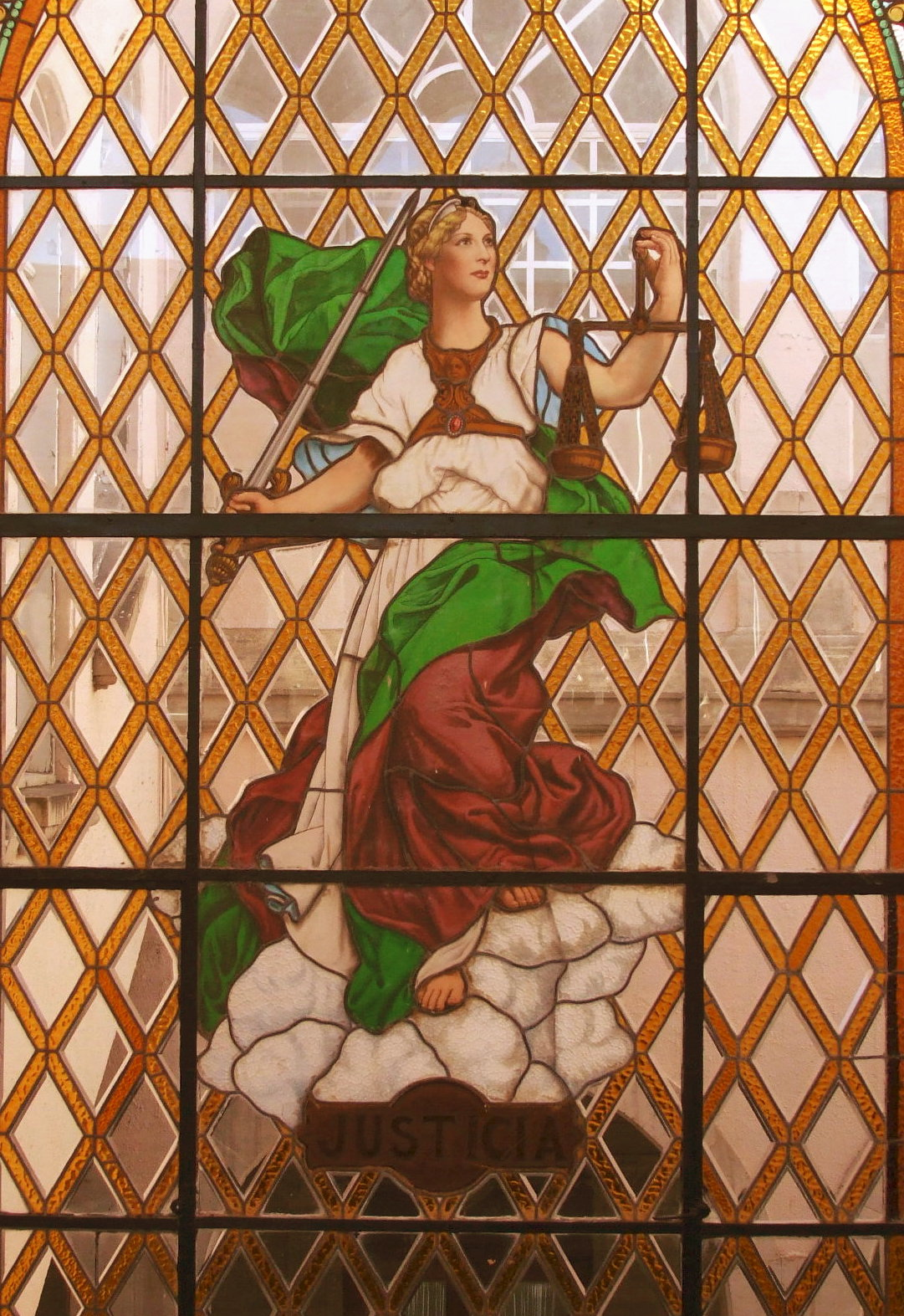 Window: Justice in Palacio del Gobierno, Chihuahua